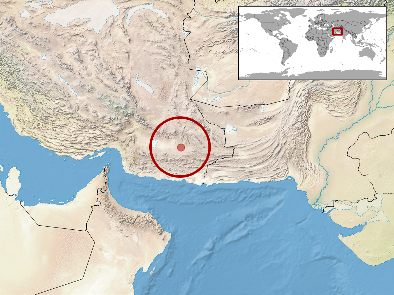 geogrphic distribution of Mediodactylus sagittiferum syn. Cyrtopodion sagittifer (Native: Iran, Islamic Republic of)